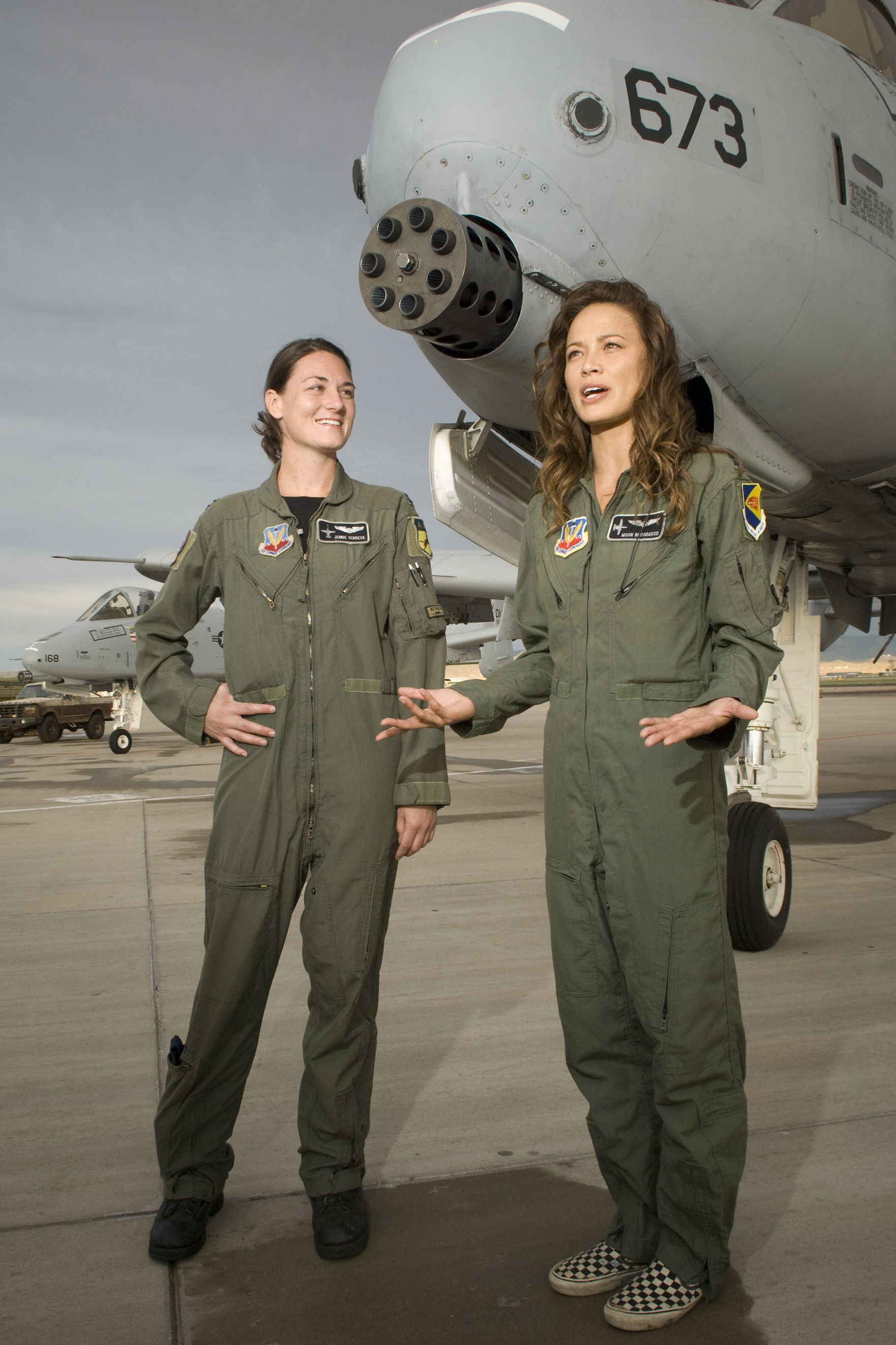 Capt. Jennie Schoeck and actress Moon Bloodgood (right) meet in front of an A-10 Thunderbolt II for an interview with the news media during the production of "Terminator Salvation" at Kirtland Air Force Base, N.M. Captain Schoeck is assigned to the 358th Fighter Squadron at Davis-Monthan Air Force Base, Ariz., and was the A-10 advisor for the production. Moon Bloodgood portrays a lead resistance pilot in the movie.